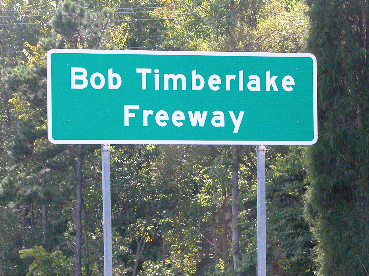 Bob Timberlake Freeway sign on I85S at exit 96